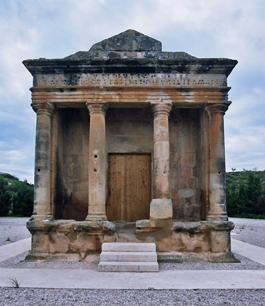 Favara mausoleum. Favara, Saragossa